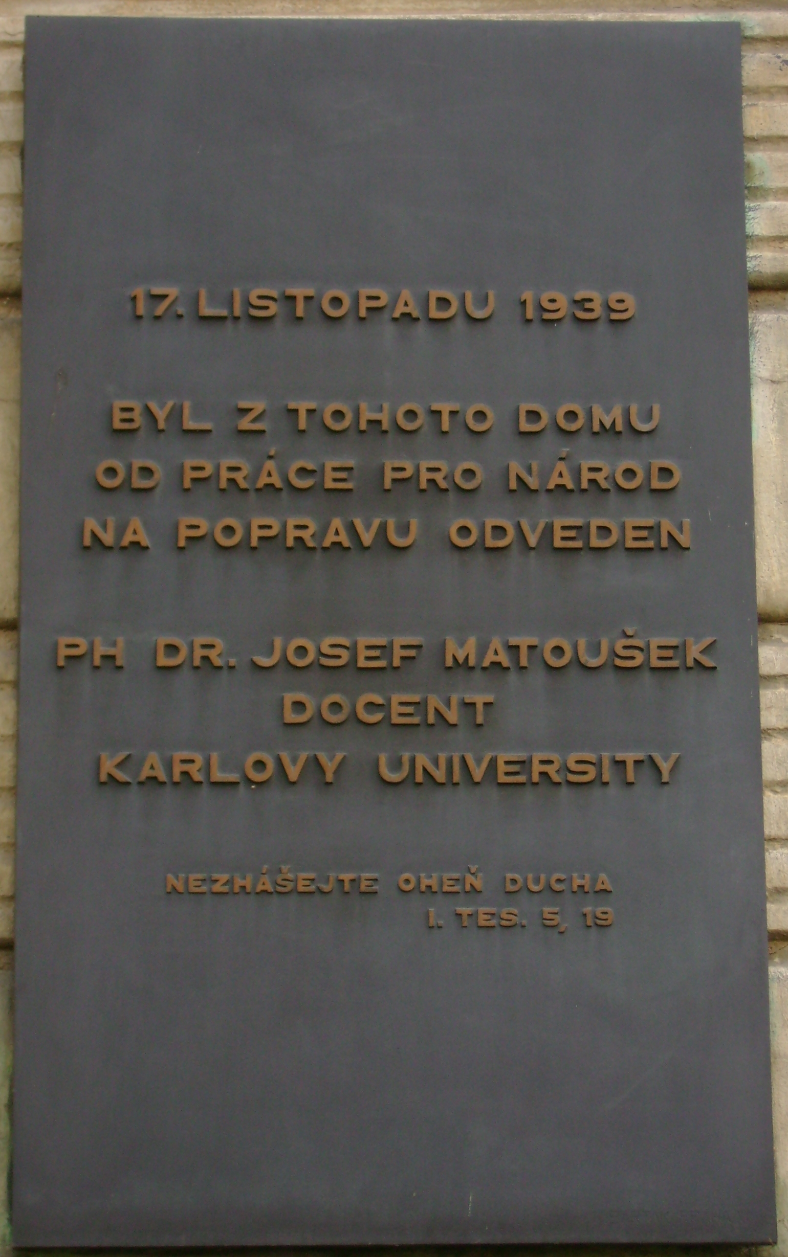 Memorial plaque, Švédská street 1084/31, Prague-Smíchov, the Czech Republic.Josef Matoušek (born January 13, 1906 – executed by the Nazis on November 17, 1939) lived here.